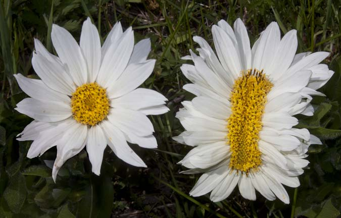 Example of a fasciated flower head, Wyethia helianthoides or White Mule's Ear. This specimen was found in a group of normal flowers in a cow pasture in Island Park, Idaho, USA. It was the only flower to exhibit this behavior.